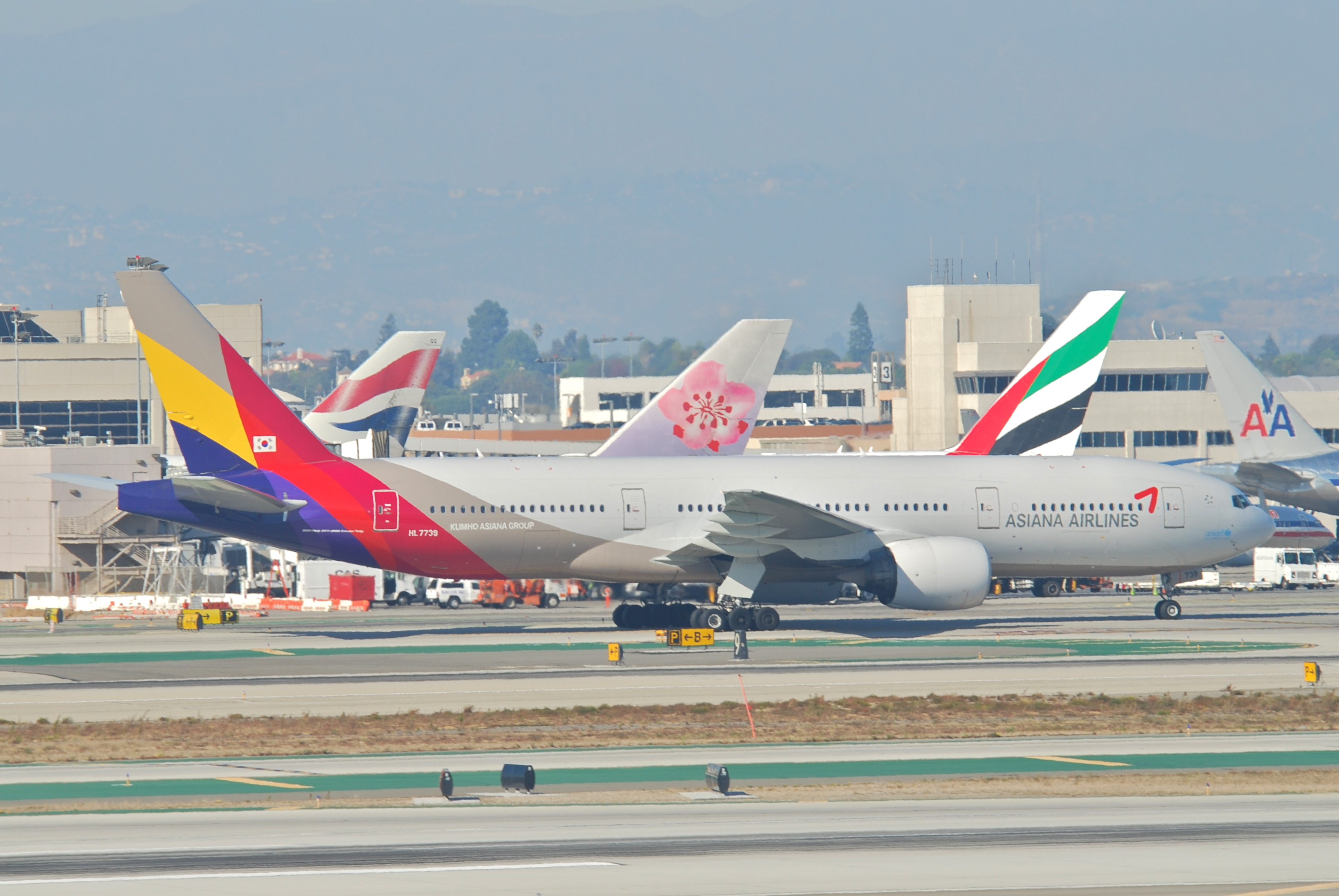 This Boeing 777-28E ER took its first flight on July 12, 2005...(c/n 29175/ 526)